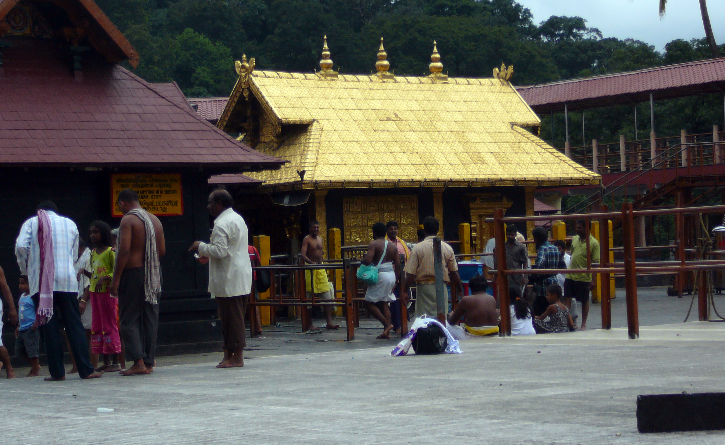 Sreekovil at sabarimala